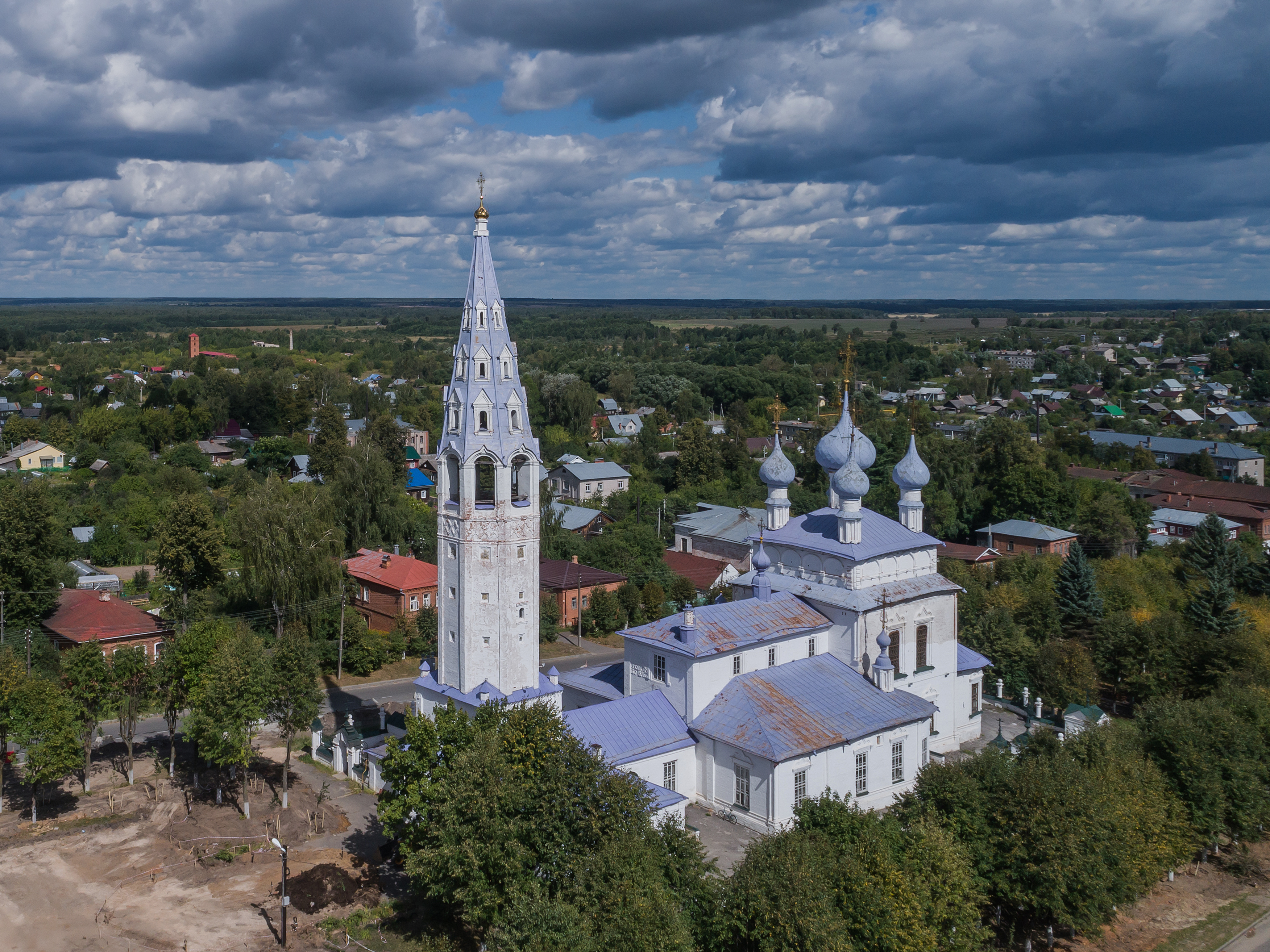 Aerial photo of Palekh, Ivanovo Oblast, Russia.